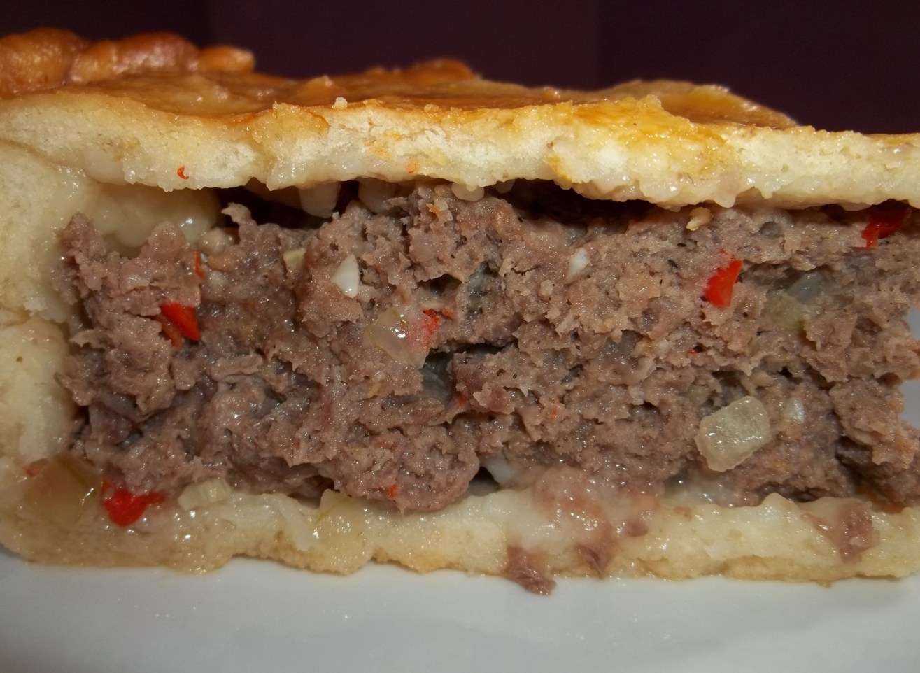 Fydzhin, Ossetian meat pie